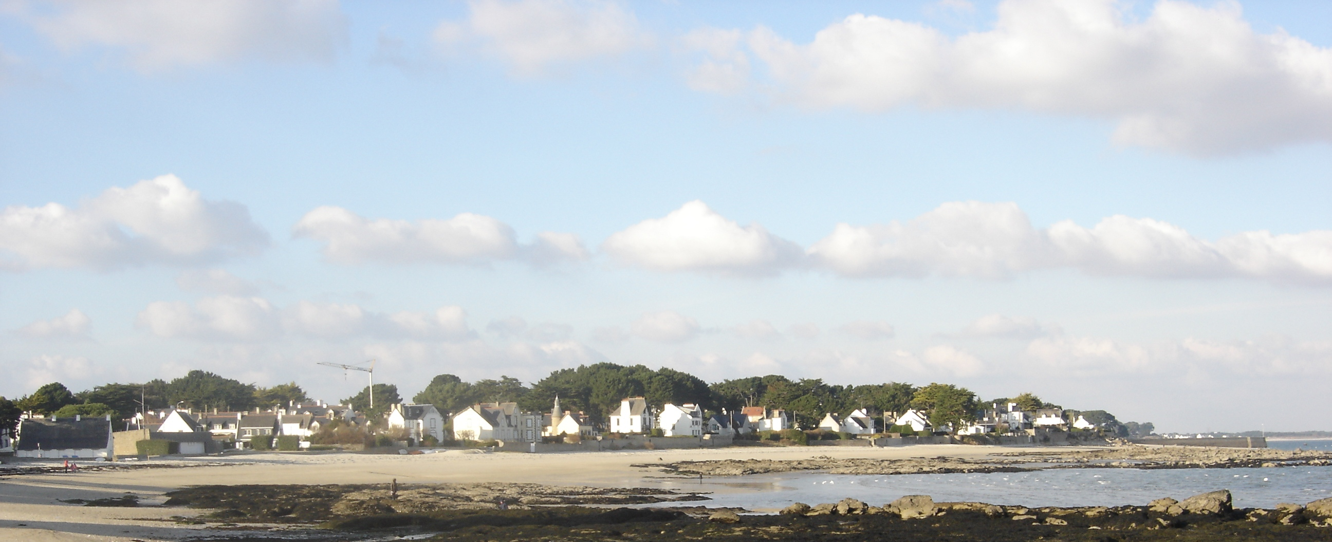 Kerbourgnec beach. Shot from Petit Rohu.